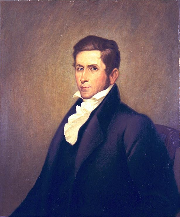 Mahlon Dickerson, Secretary of the Navy, 1 July 1834 -- 30 June 1838